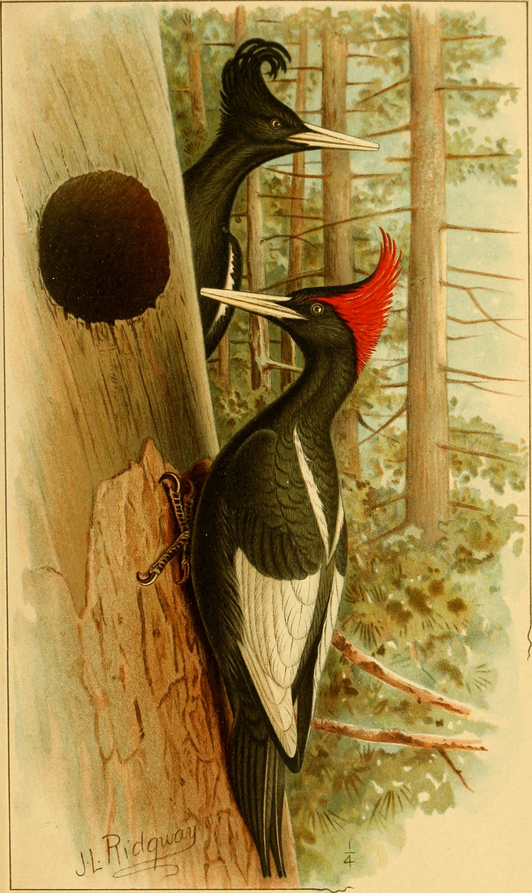 Title: The Auk Year: 1898 (1890s) Authors: American Ornithologists' Union Subjects: Birds; Ornithology Publisher: Washington, D. C. American Ornithologists' Union, etc Text Appearing Before Image: "he Auk, Vol. XV. I'LAIK III Text Appearing After Image: IMPERIAL WOODPECKER S &? (CAMPEPHILUS IMPERIALIS GOULD.)